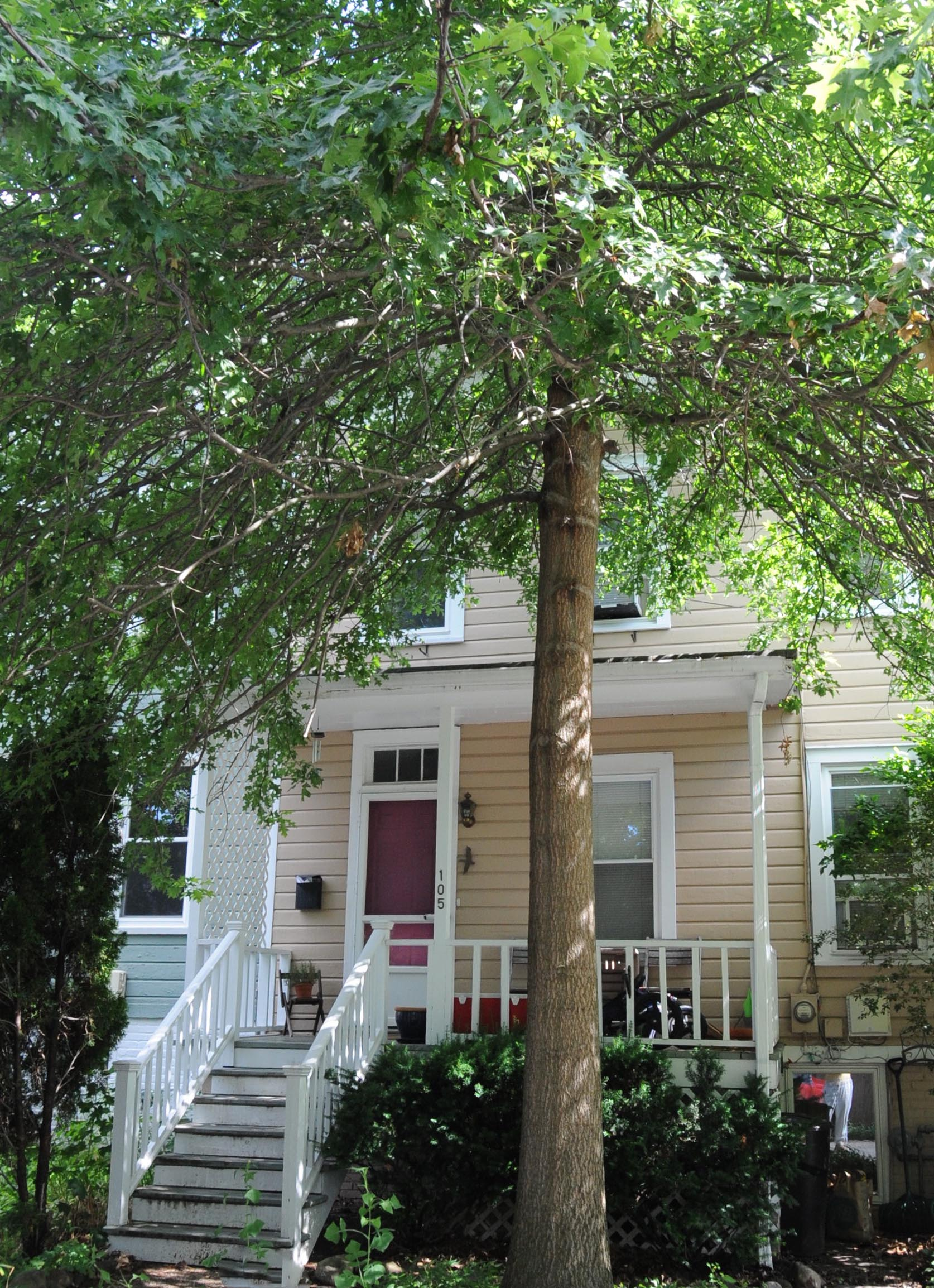 VILLAGE DATES TO 1798 AND WAS A MARINE AND SHIPBUILDING CENTER; THE HOUSE PICTURED IS ONE OF A ROW FRAME HOUSES ON SCHOOL STREET KNOWN AS THE SHIP BUILDERS HOUSES AND DATE TO THE 1880’S